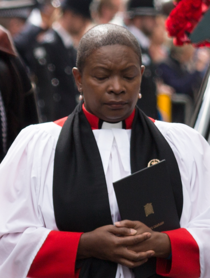 Rev. Rose Hudson-Wilkin in the funeral procession of Keith Palmer